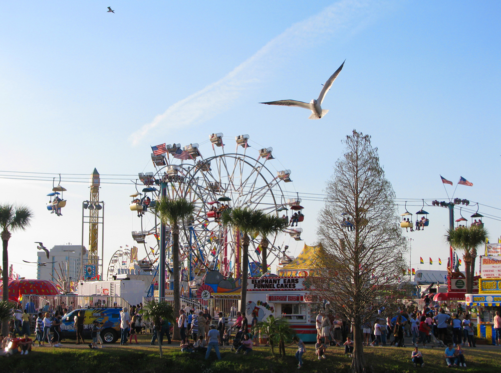 Image taken at the State Fair grounds, Tampa, Florida, United States, with a Canon Powershot S5 IS digital camera. Another photo of the Ferris wheel that night makes clear that this is a Florida State Fair Photo.